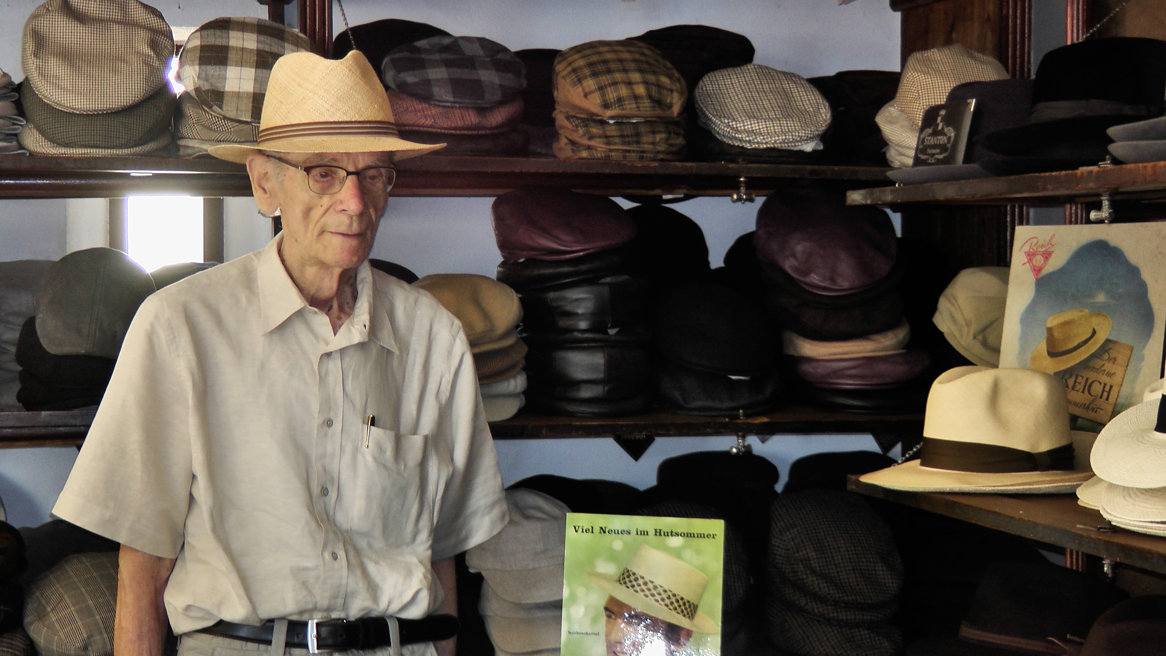 Millinery Shop Georg from Trier in the Open Air Museum Roscheider Hof, Konz and Museum's director Dr. Haas